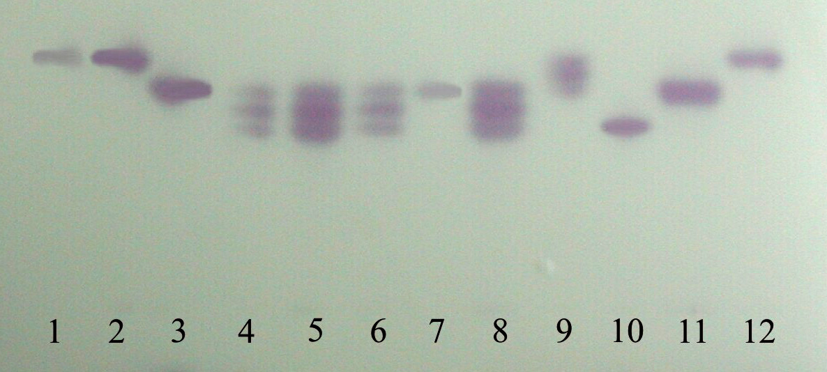 Genetic polymorphism in locus GPI (glucose-6-phosphate isomerase) in the Daphnia longispina complex.